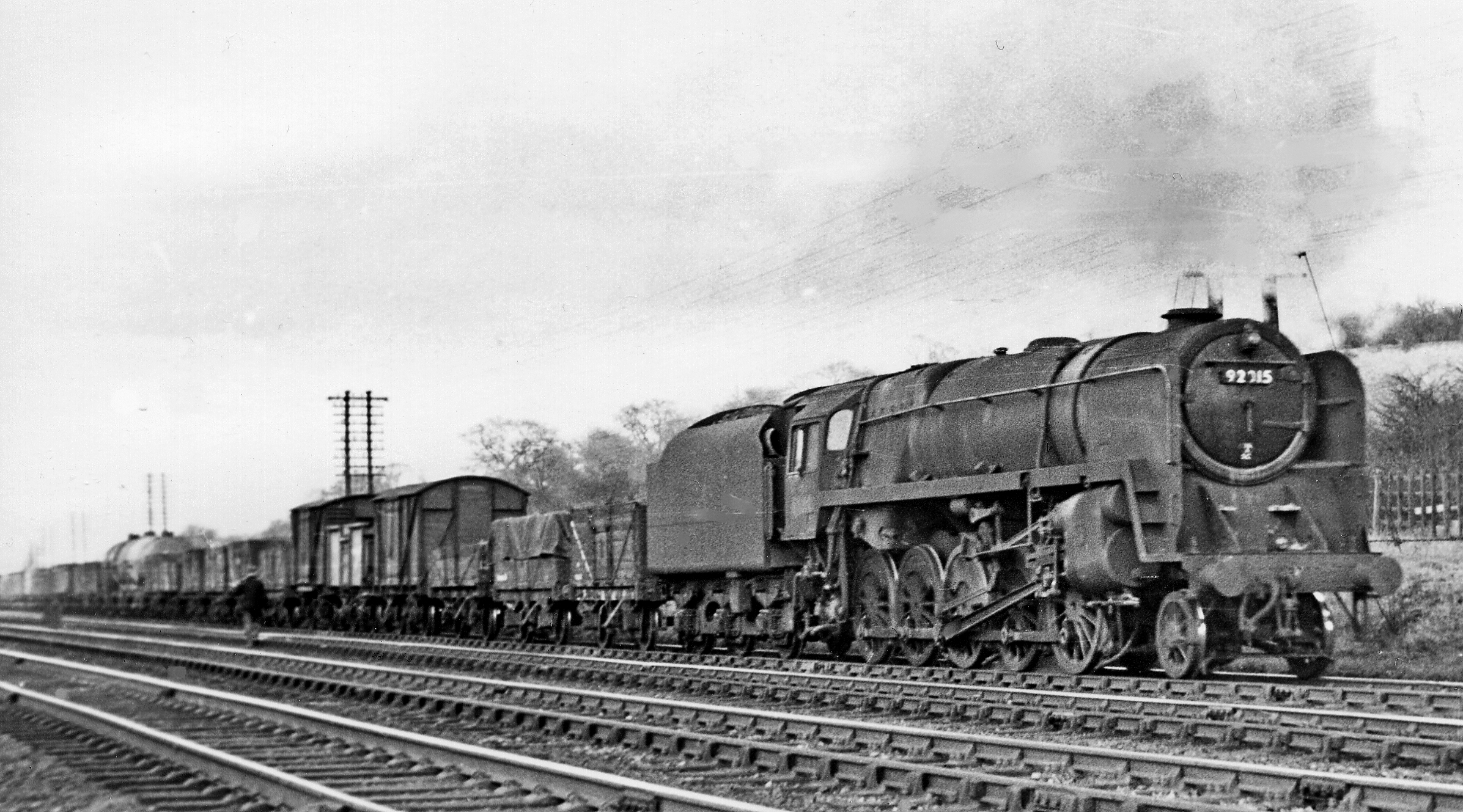 Up freight north of Harlington. View northward, towards Bedford and the North: ex-Midland Main Line from St Pancras. The Up class H freight is headed by quite new BR Standard 9F 2-10-0 No. 92015 (built 10/54, withdrawn 5/67).